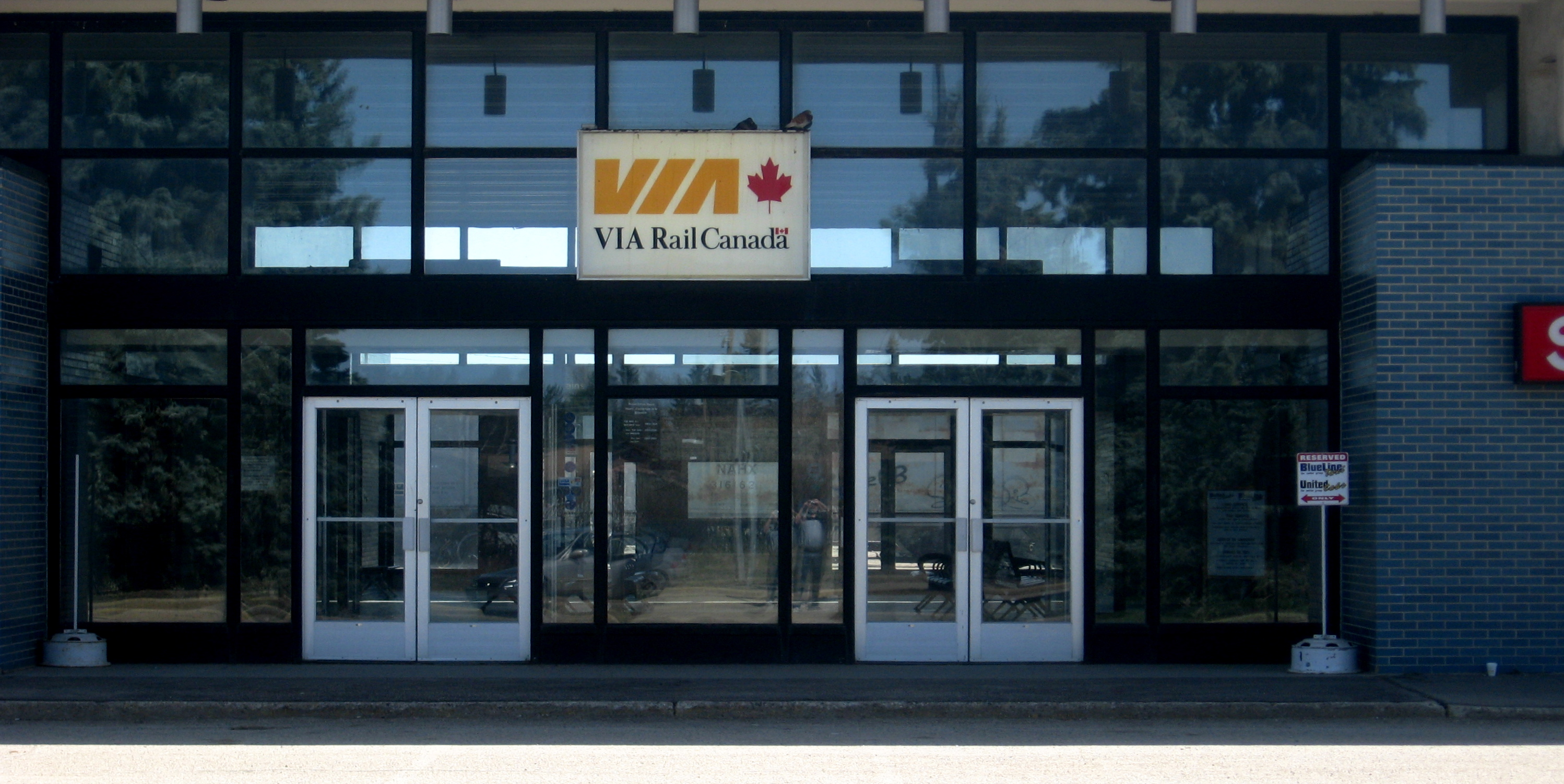 front entrance of the via rail station CN Chappell Yards Gare Via Station. CN yards Management Area Saskatoon|Saskatoon Saskatoon railway station